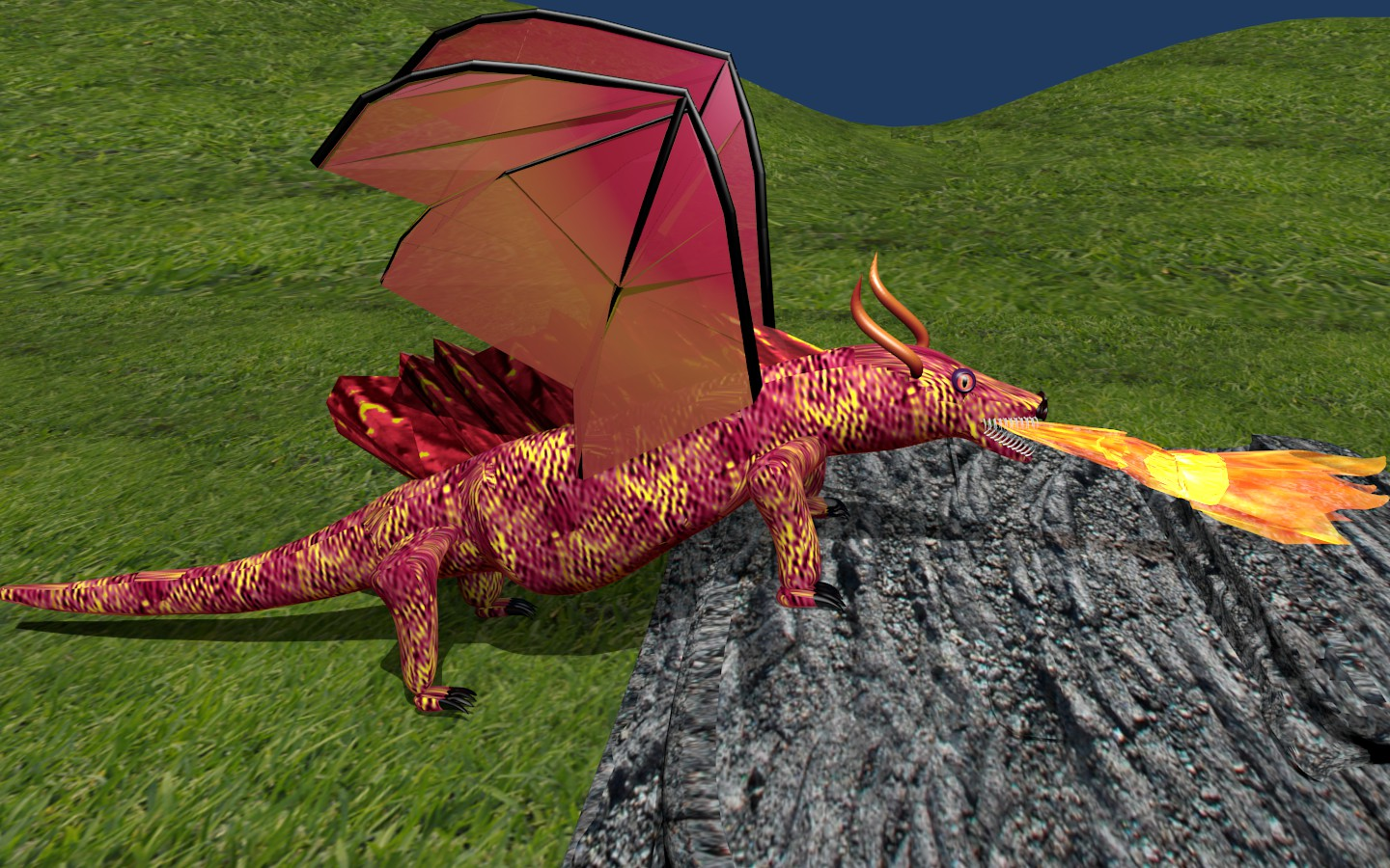 A dragon created with Blender